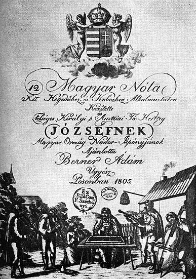 Gipsy-band at the beginning of the nineteenth century (front-page of a contemporary musical publication)